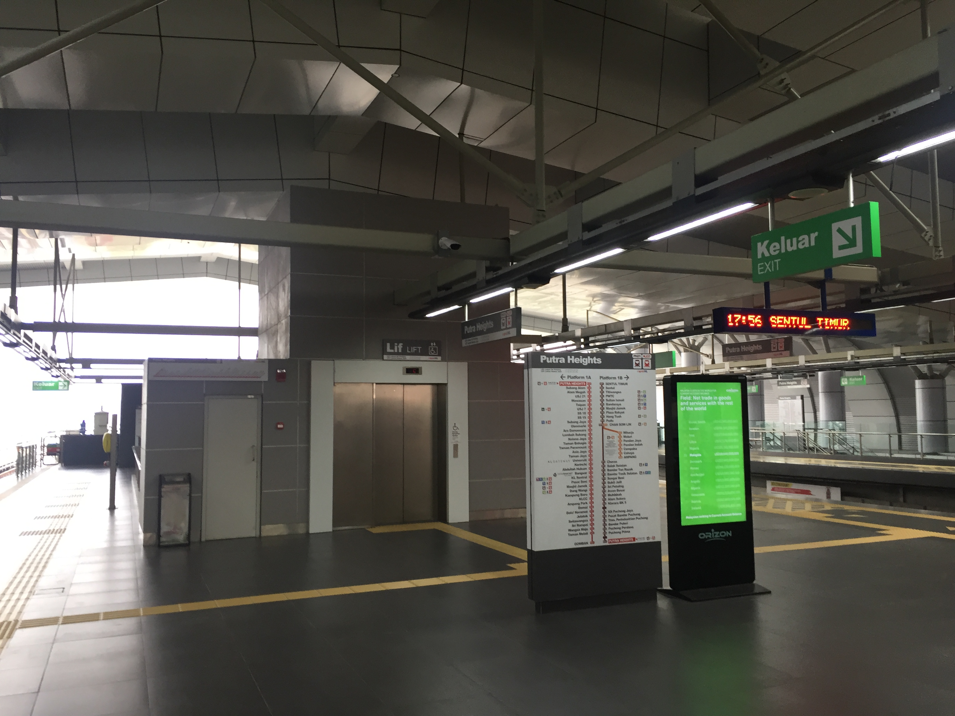 The lift to the platforms at Putra Heights. Signboard for the LRT lines included.